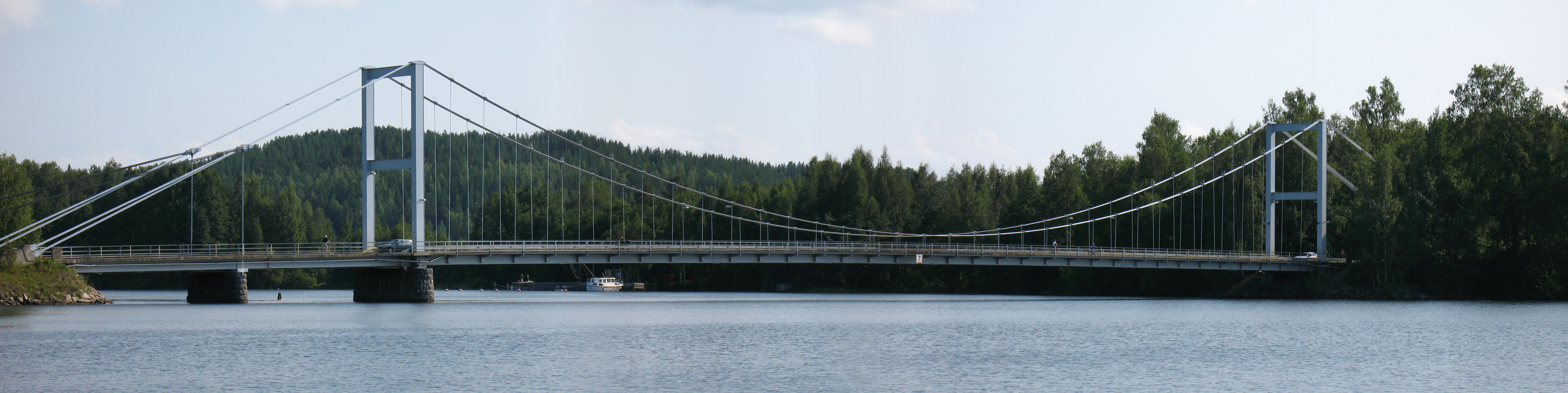 Louhunsalmi suspension bridge in Säynätsalo, Jyväskylä.